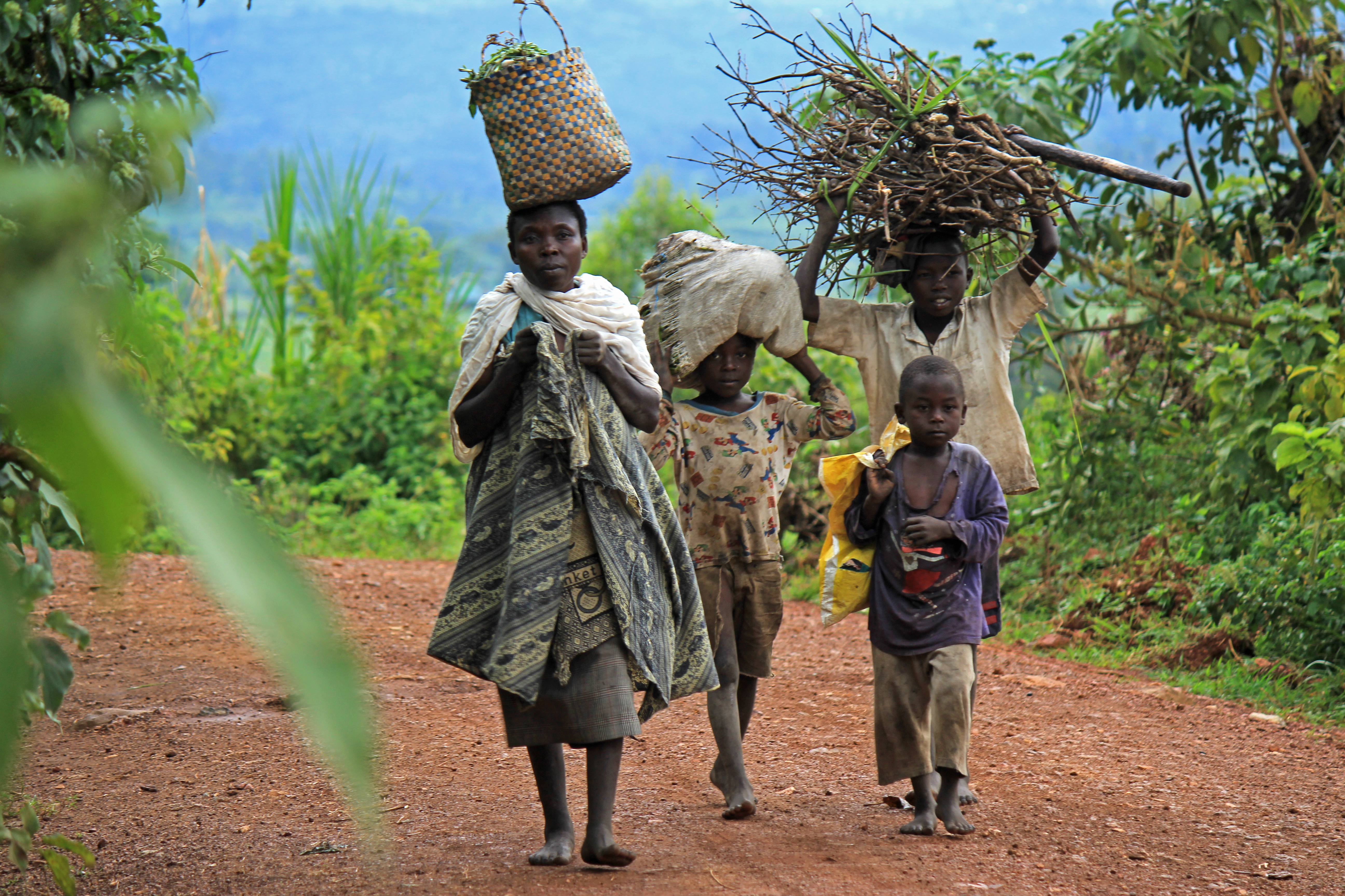 A mother and her children carrying produce and firewood as they come from the garden This is an image of "African people at work" from Uganda